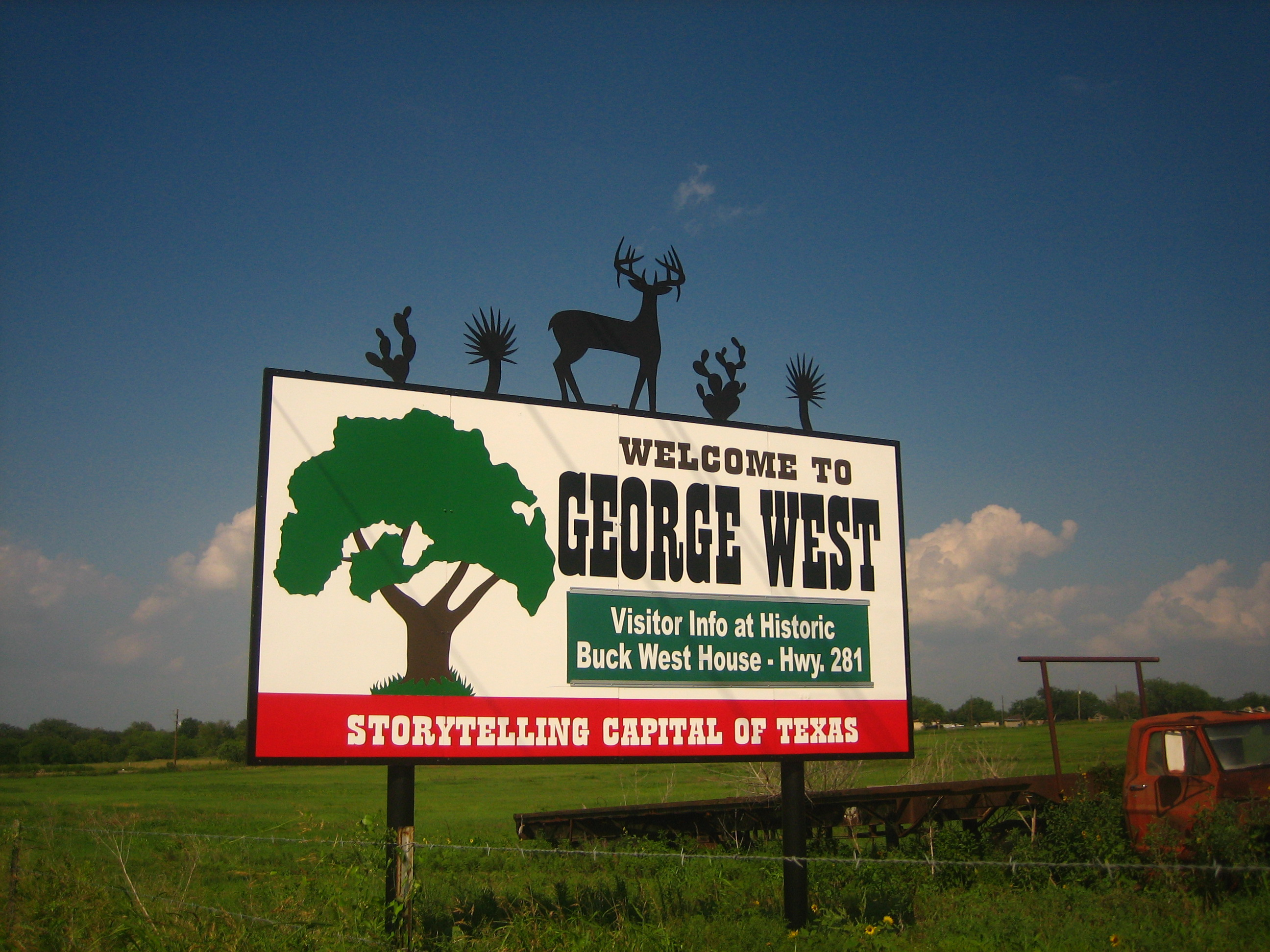 city welcome sign at the southwest end of George West, Texas, on U.S. Route 59 headed northeast